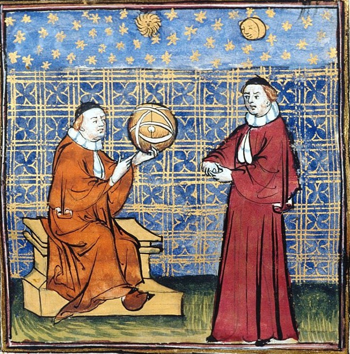 Observation of the stars, miniature from De Proprietatibus Rerum by Bartholomeus Anglicus, XV century